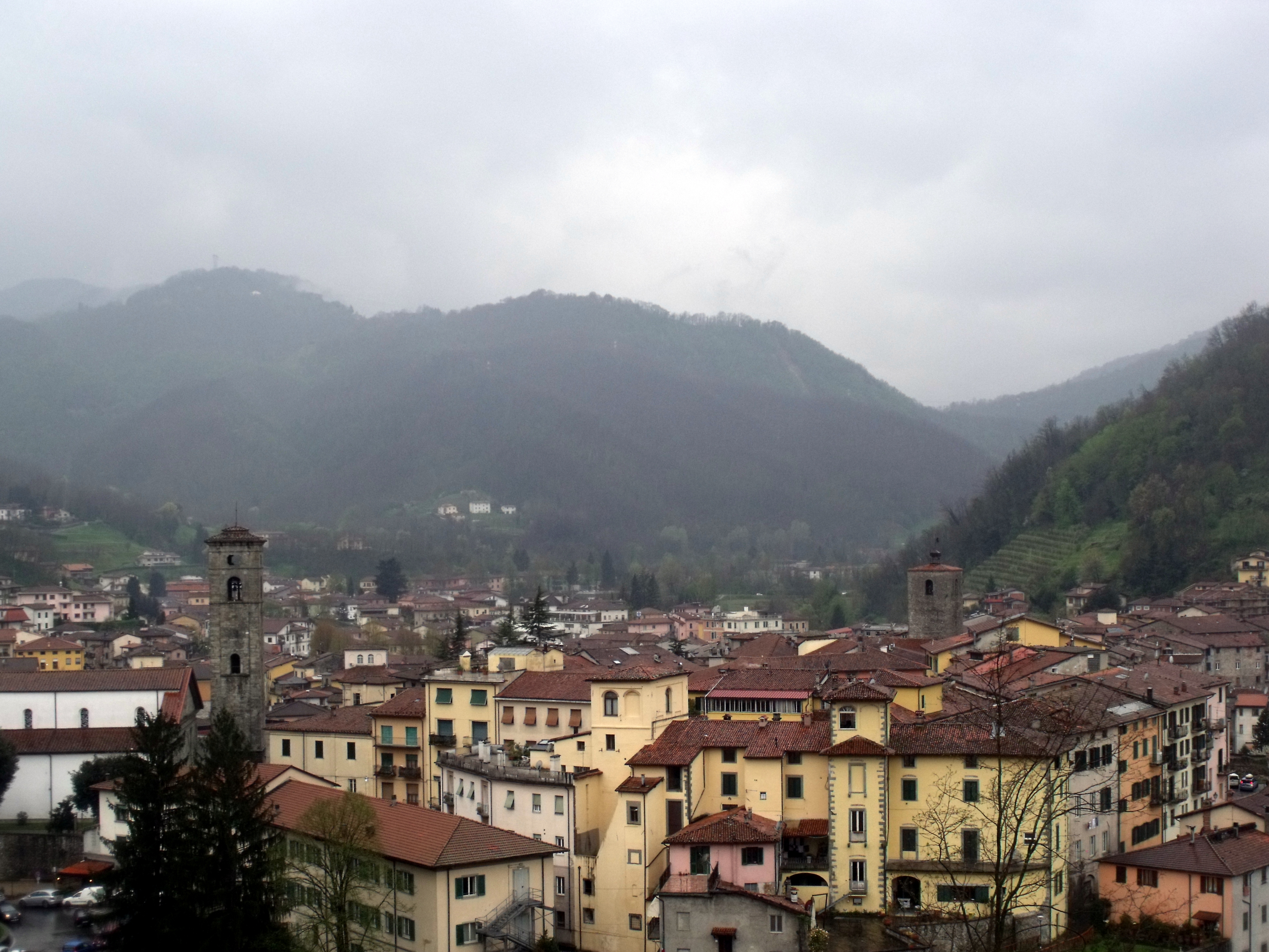 Panorama of Castelnuovo di Garfagnana, Province of Lucca, Tuscany, Italy